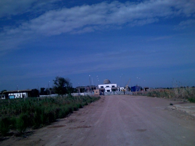 Border crossing between Konye-Urgench and Nukus, Turkmen side.